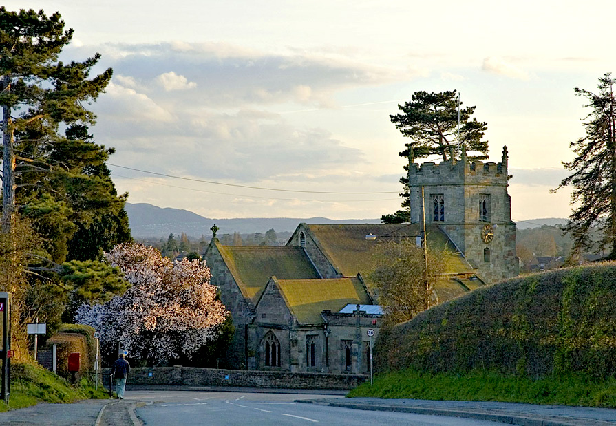 Photograph of Claines church taken in 2006 by myself. Newton2 15:43, 6 June 2006 (UTC)